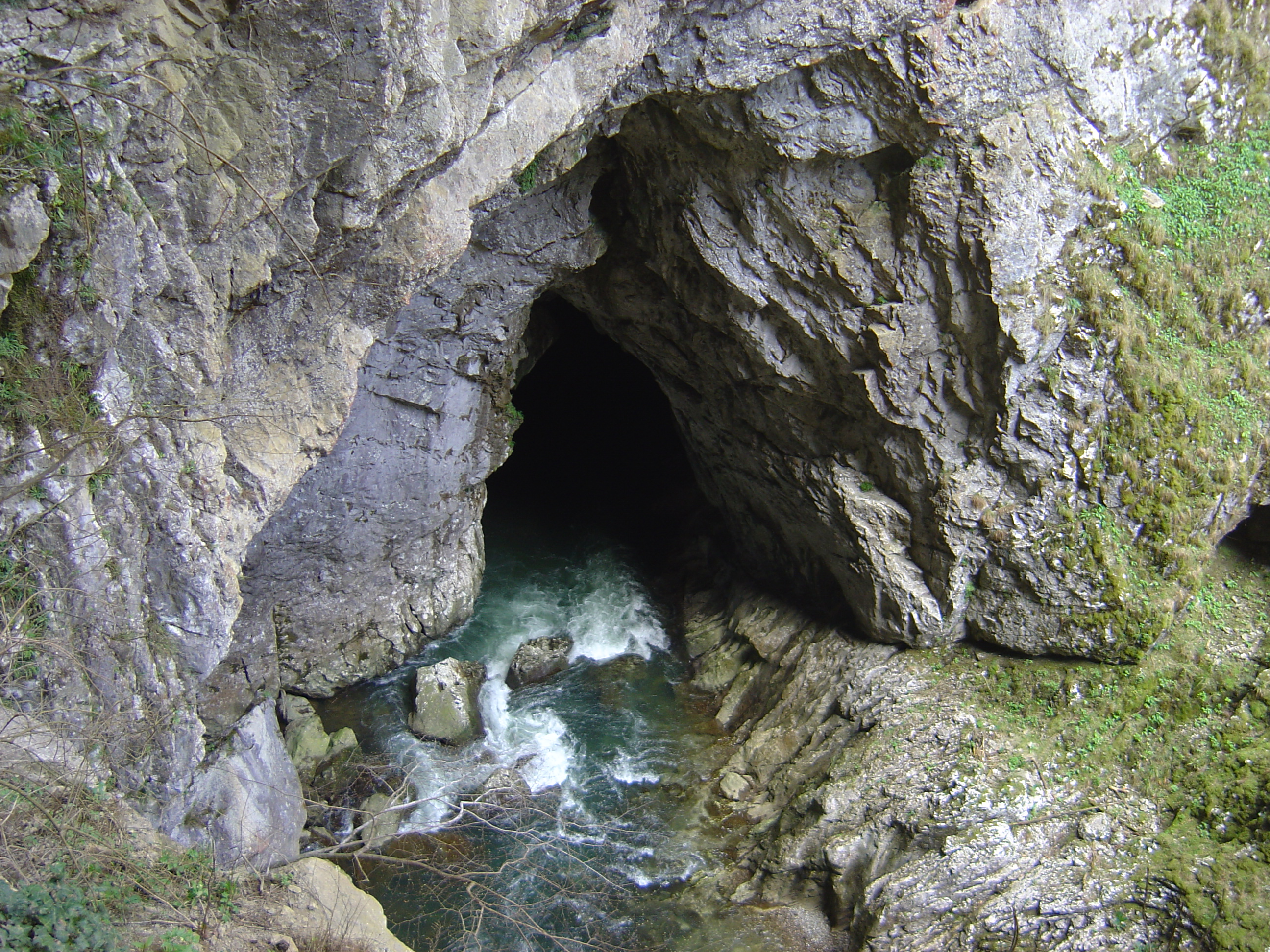 Škocjanske jame, Divača, Slovenia. Last huge Ponor, of 3, where river Reka disappears in the cave. The even bigger, 30m high, now dry, portal of the cave is above, but here not seen.